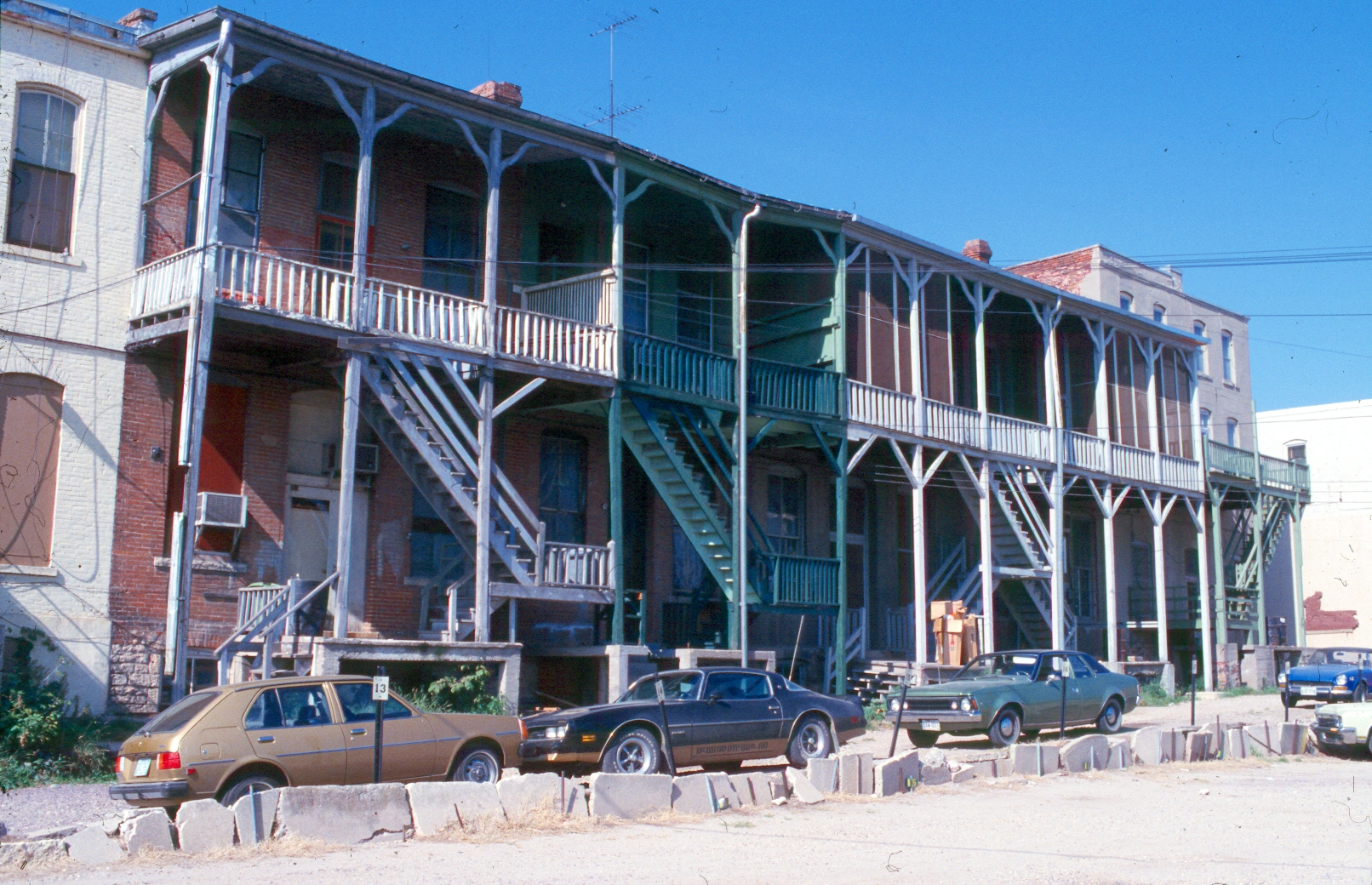 Boesch, Hummel, and Maltzahn Block in New Ulm, Minnesota, taken at the time it was listed on the National Register of Historic Places, c. 1980. Photo from the Minnesota State Historic Preservation Office at the Minnesota History Center.